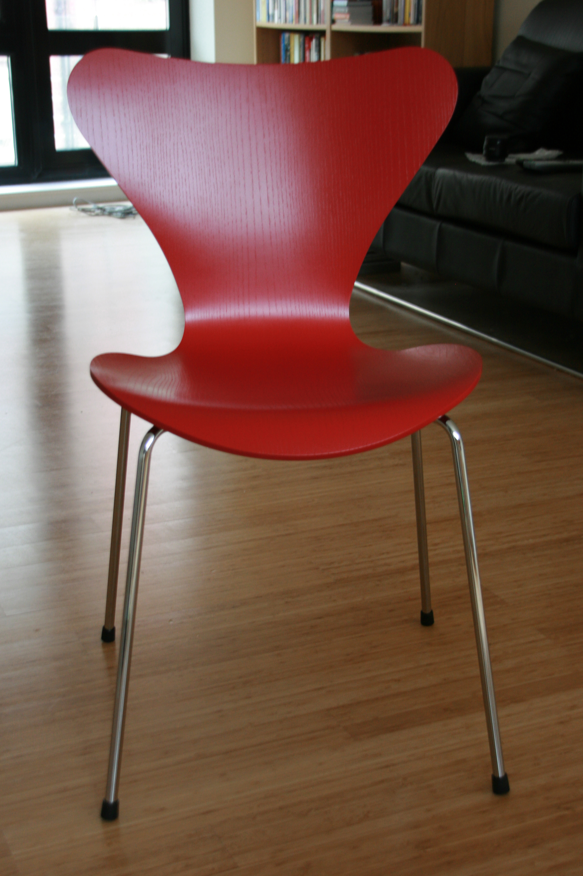 One of my new chairs; red painted ash. - Arne Jacobsen: model 3107, 1957, chair